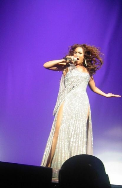 Beyoncé Knowles singing "Irreplaceable"